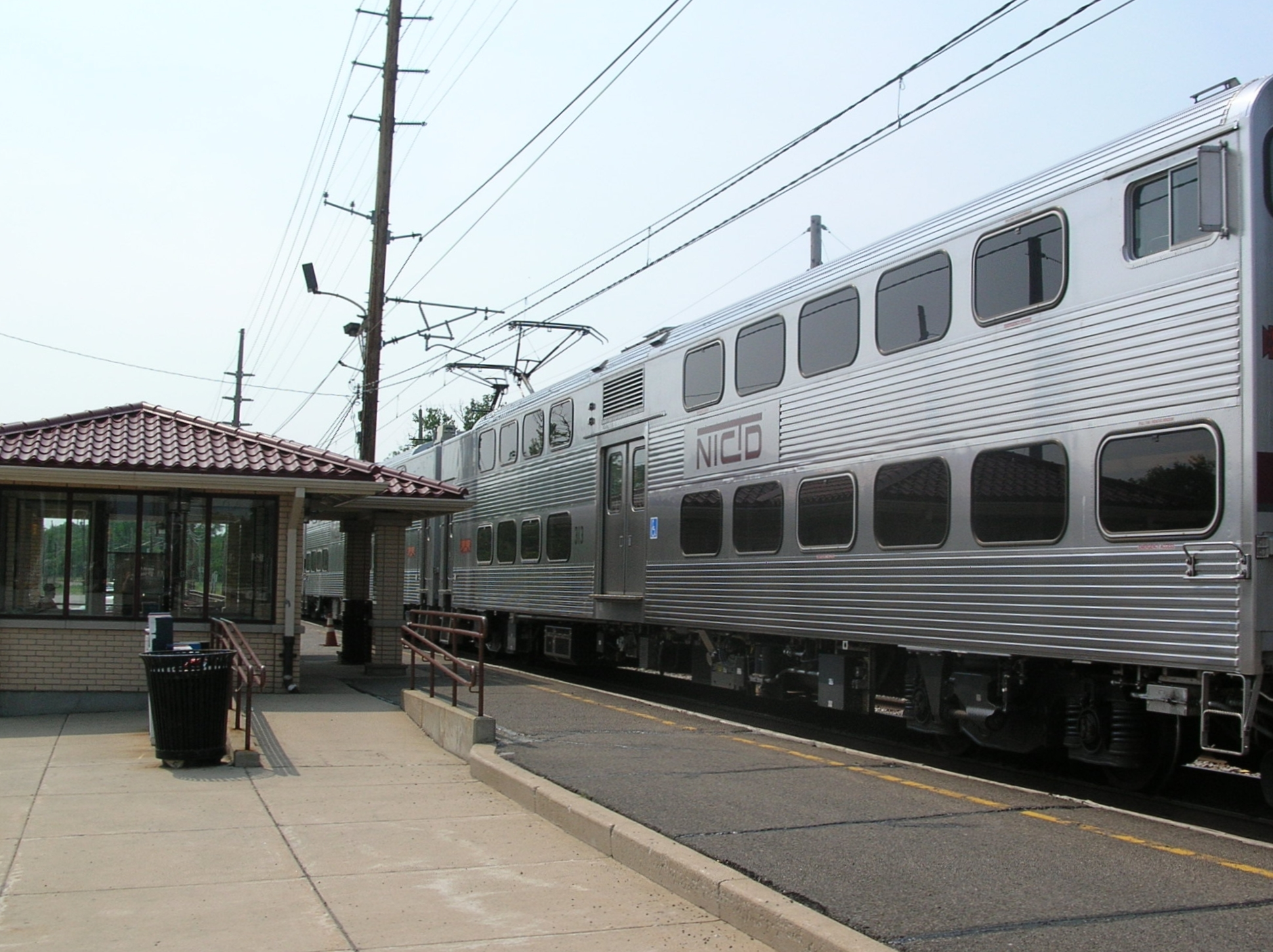 Double-decker train about to depart from Miller Station on the NICTD South Shore Line.